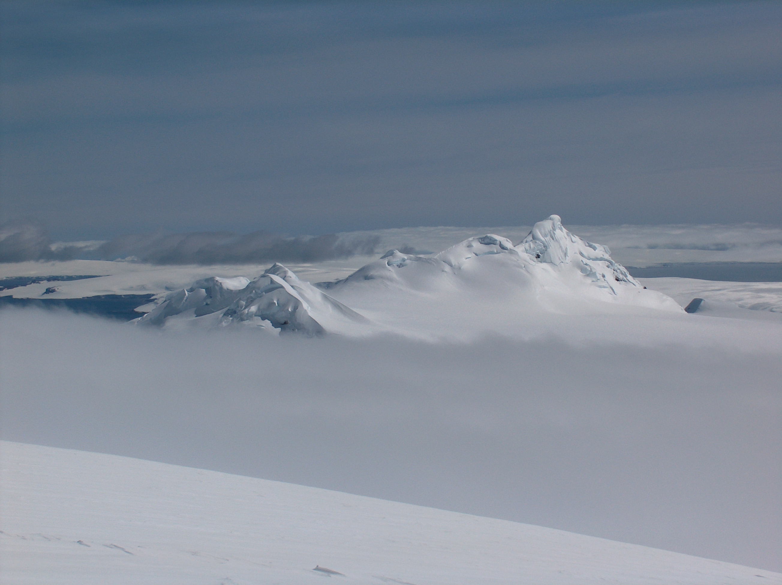 Pliska Ridge and Burdick Ridge on Livingston Island, Antarctica